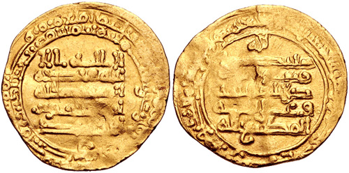 ISLAMIC, Egypt & Syria (Pre-Fatimid). Ikhshidids. Abu'l-Qasim Unujur. AH 334-349 / AD 946-960. AV Dinar (22mm, 3.25 g, 9h). Misr (Fustat) mint. Dated AH 343 or 346 (AD 954/5 or 957/8). Bacharach 61 and 67; cf. SICA 6, 196-7 (for type); Album 676. VF, areas of flat strike, slightly wavy flan.